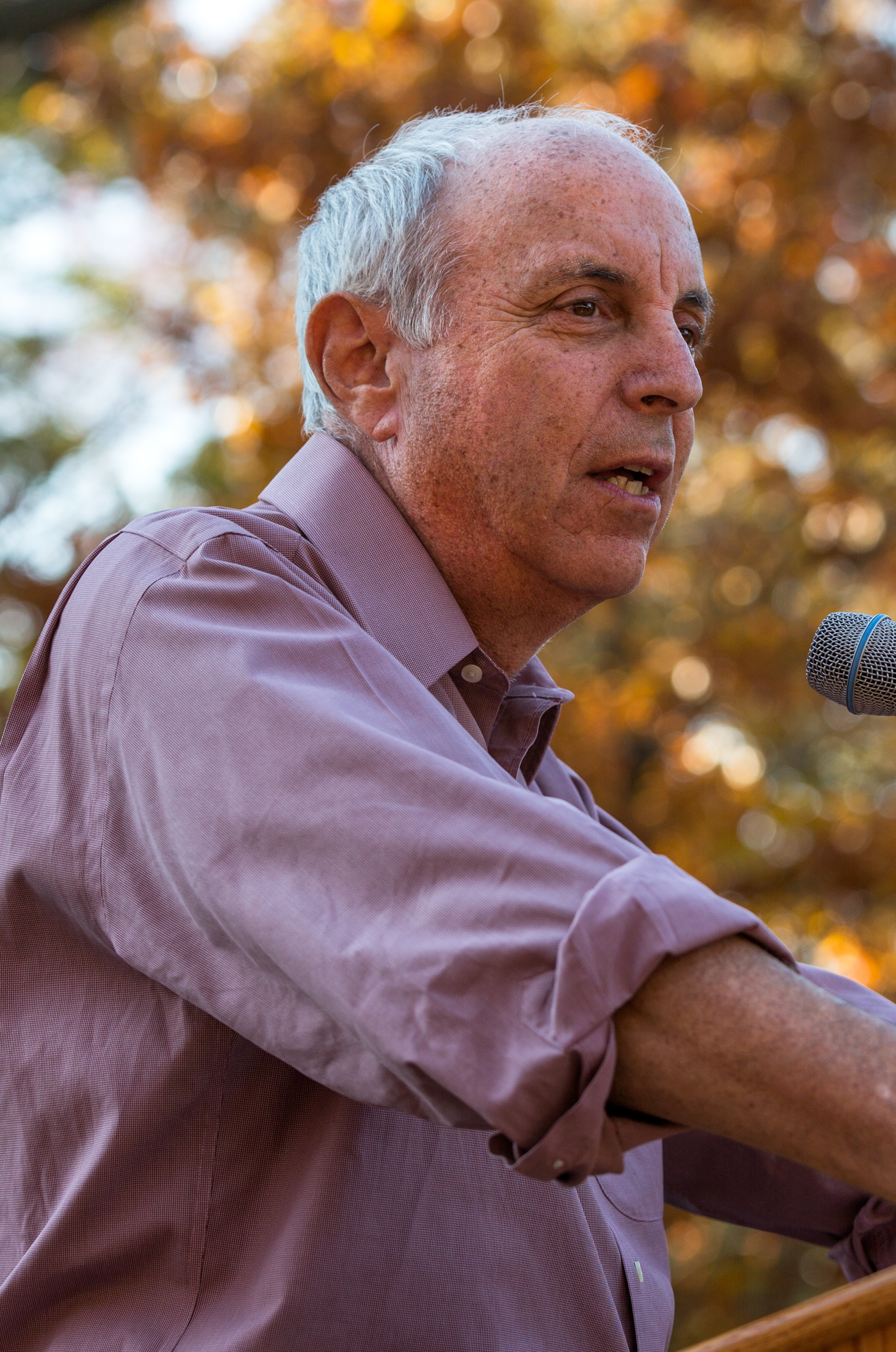 S. Capitol, Washington DC